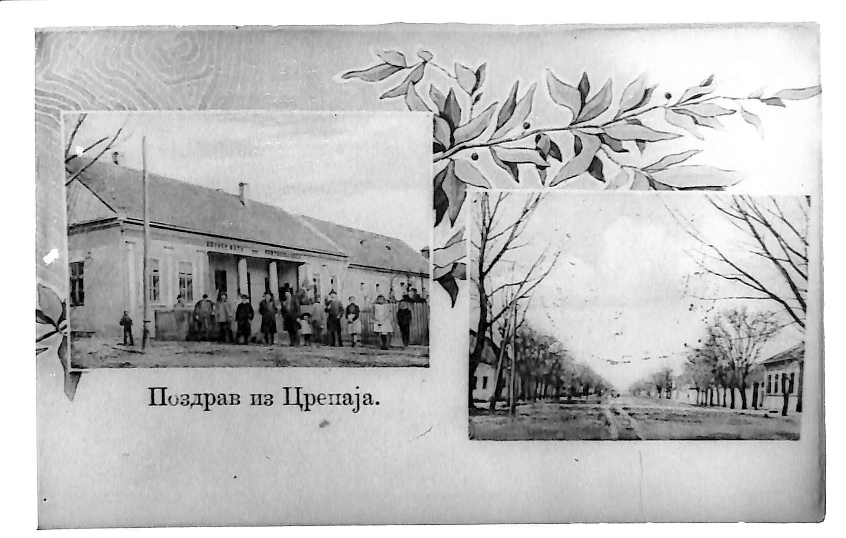 Crepaja on the postcard